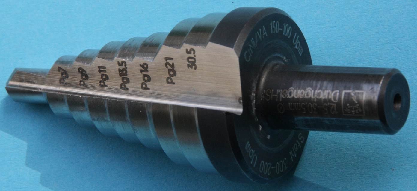 Unibit, drill holes fitting for Panzergewinde PG7…PG21 and 30,5 mm